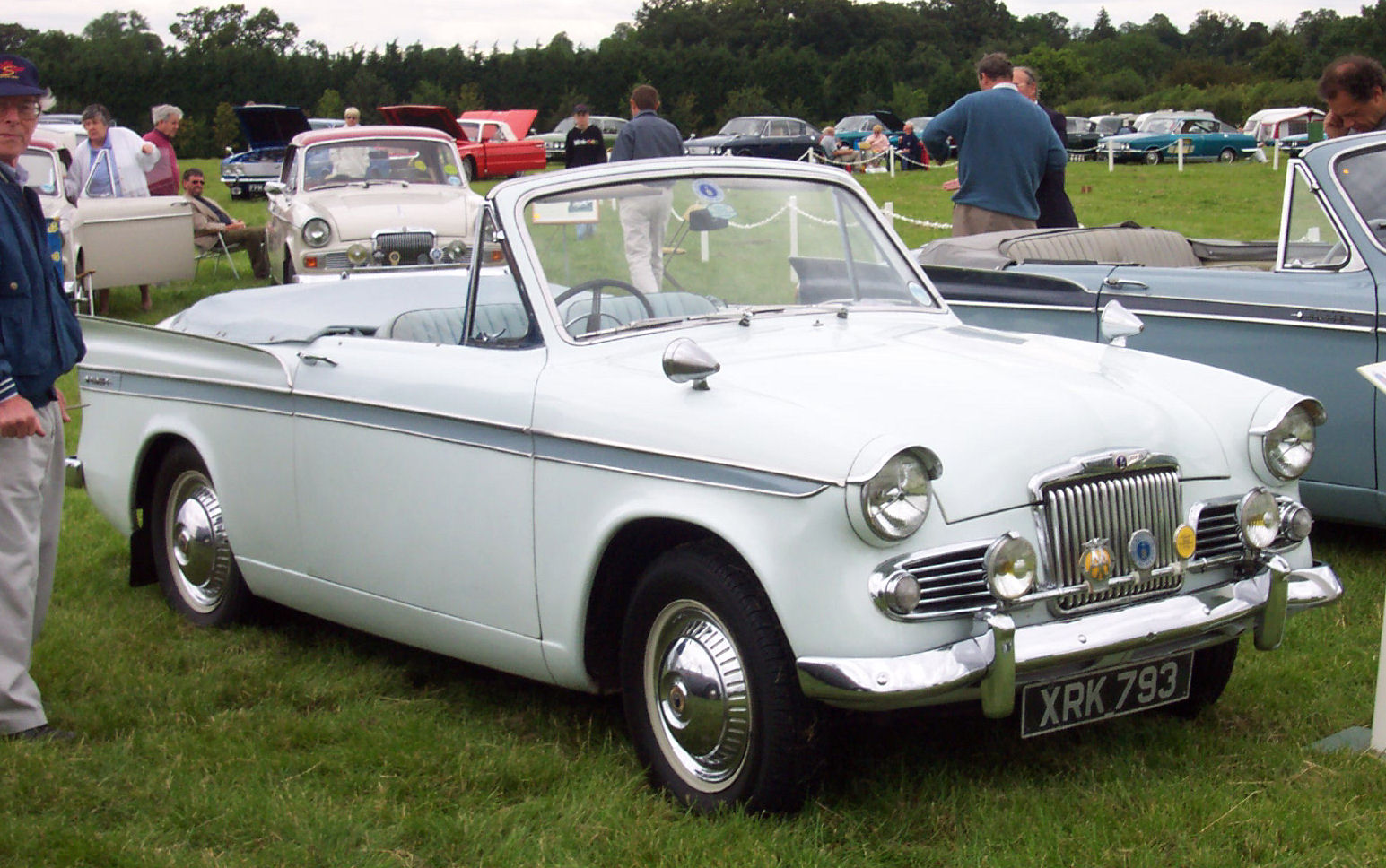 Summary Sunbeam Rapier Series 3 Convertible. Picture by David Parrott.